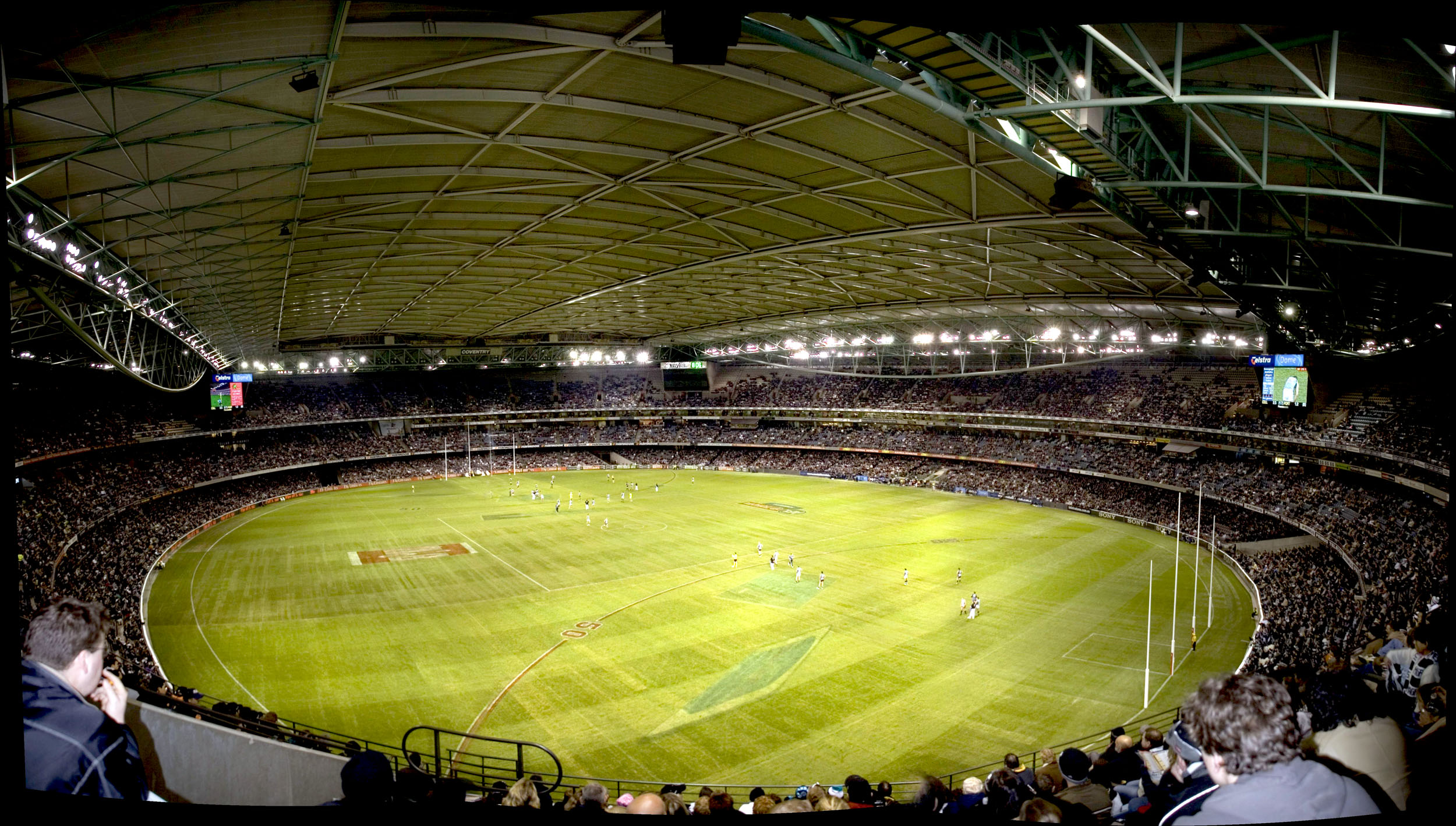 A panoramic view of the interor of Telstra Dome with the roof closed. Taken during a Collingwood vs. Port Adelaide AFL match. By Anthony Agius. Category:Images of buildings and structures in Melbourne